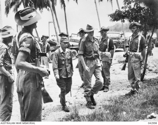 Labuan, Borneo. 1945-09-10. Lieutenant General Baba Masao, Supreme Japanese Commander in Borneo arriving for the signing of the Japanese surrender.